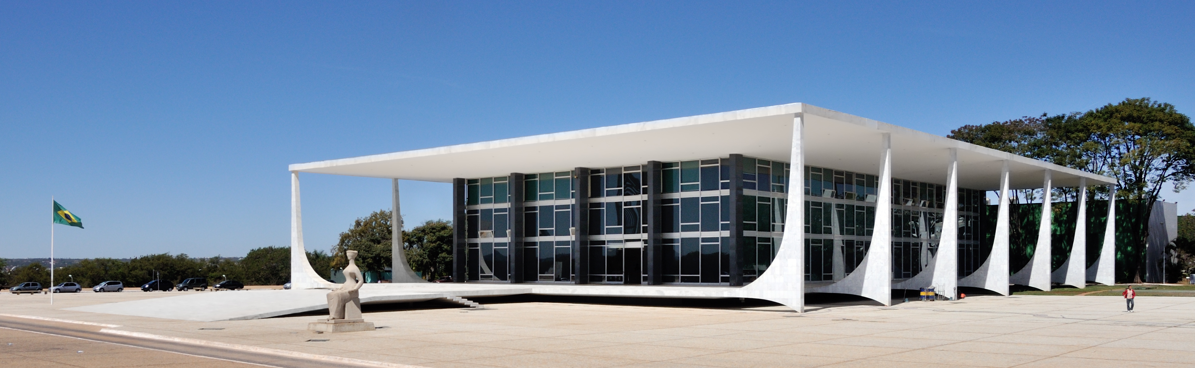 Brasilia: Supreme Federal Court of Brazil.